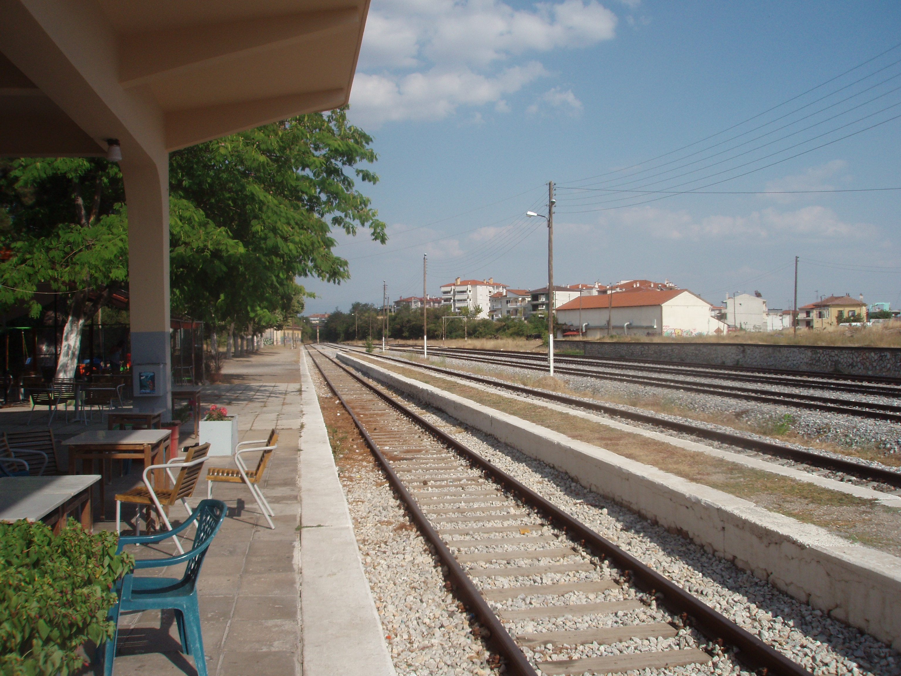 Kozani-Ptolemaida-Amyndeo railway line. View of its terminus at the railway station of Kozani (city), Kozani prefecture, Greece.